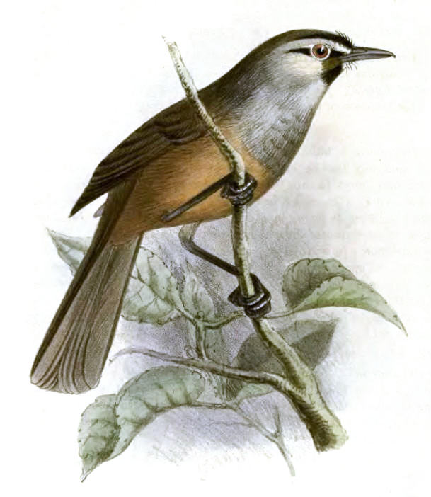 Grey-breasted race of the Nilgiri Laughing thrush, Trochalopteron cacchinans jerdoni - also called the Banasore Laughing Thrush